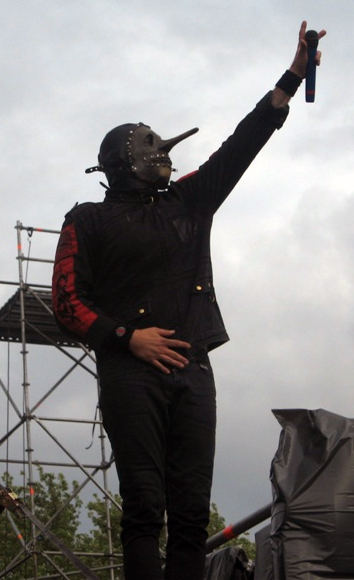 Percussionist and backing vocalist Chris Fehn of Slipknot at Sonisphere festival 2009.